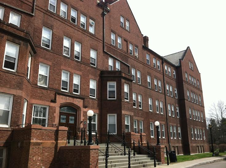 Raymond House dormitory, Vassar College. Taken 2013.